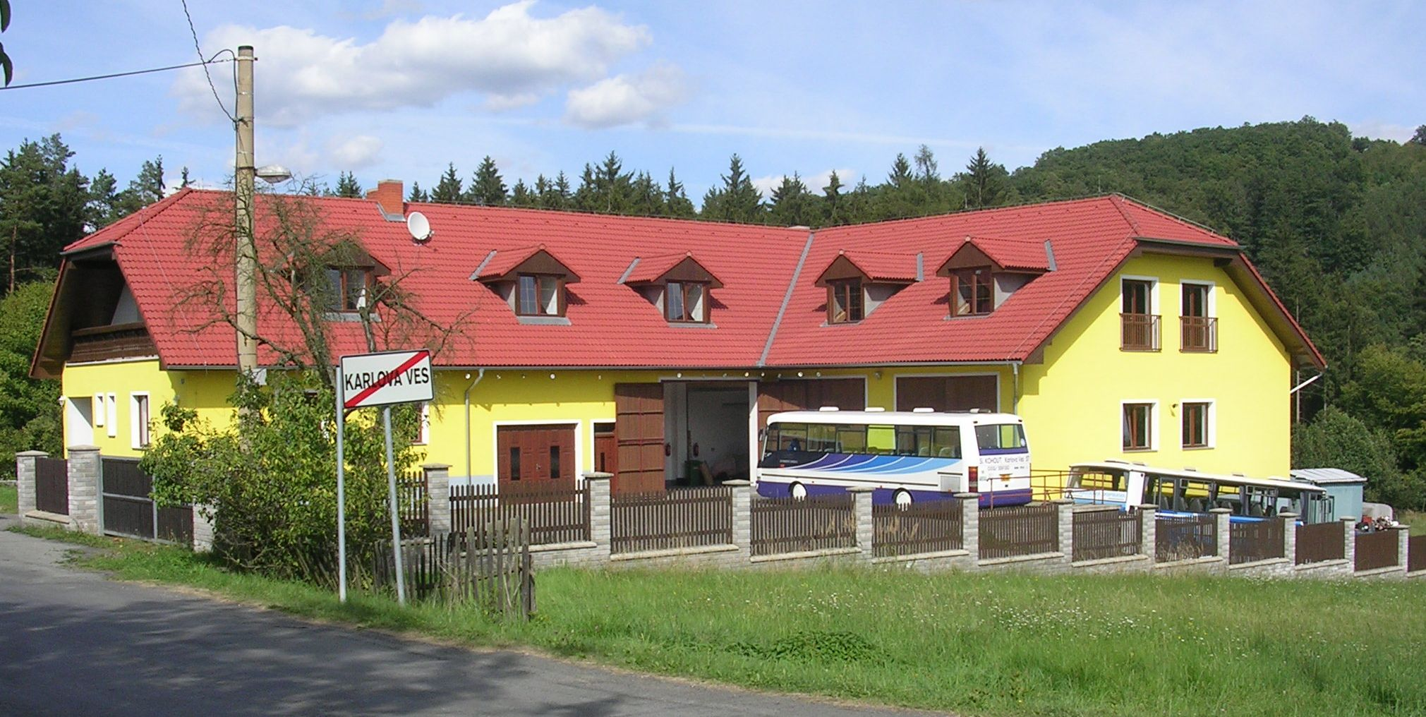 Karlova Ves, Rakovník District, Central Bohemian Region, the Czech Republic. Bus depot of Autobusová doprava Kohout.